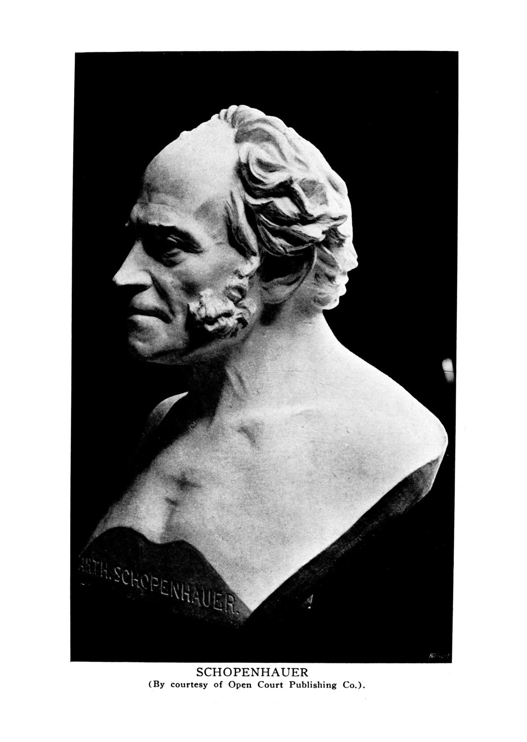 Sculpture of Arthur Schopenhauer by Elisabet Ney.